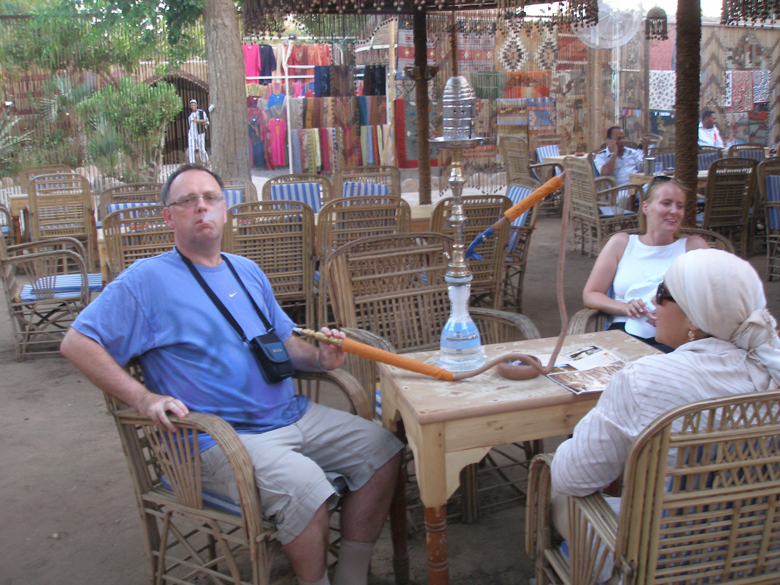 Tamás Erdélyi (mathematician) in Egypt, 2008